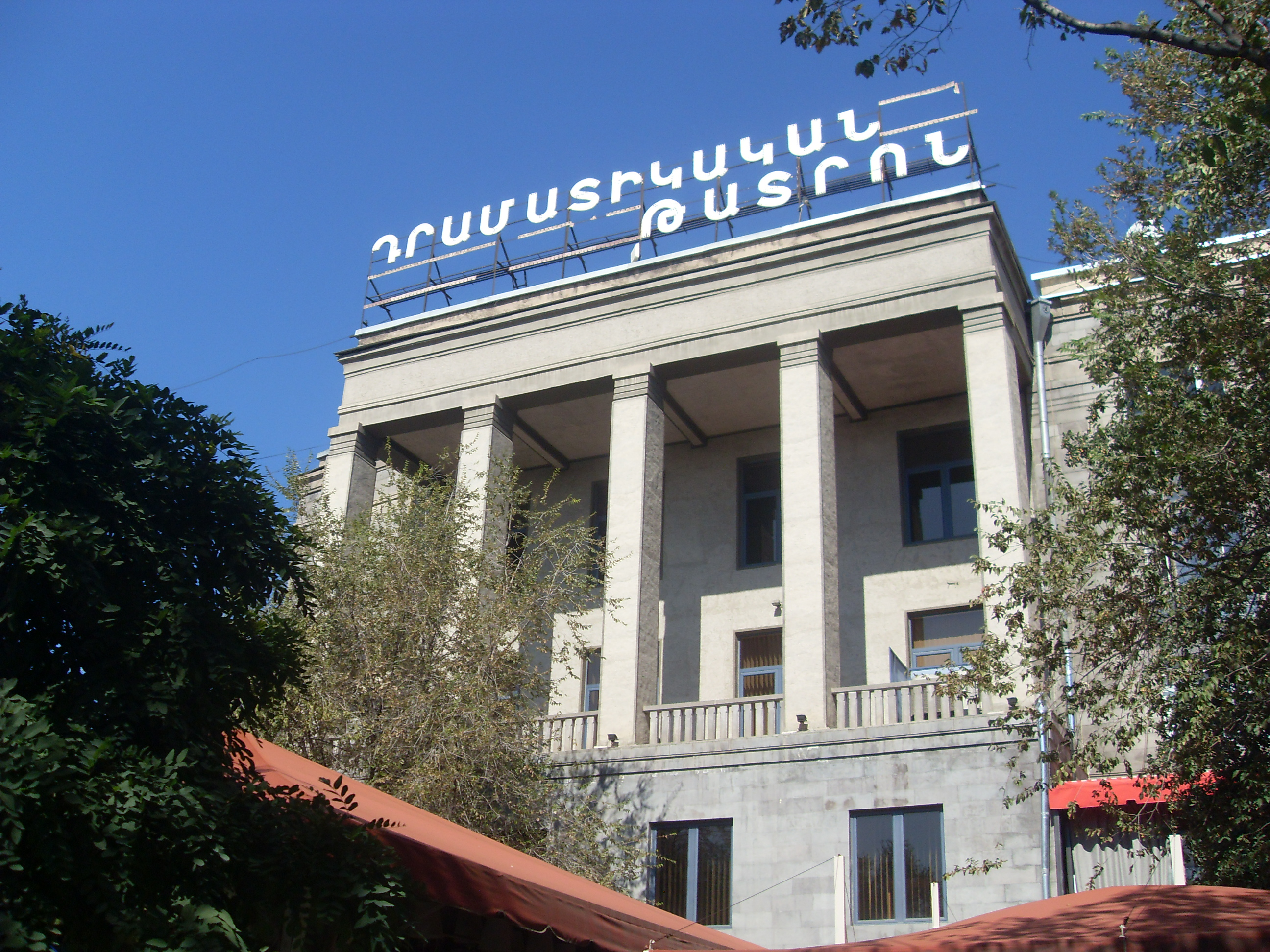 Hrachya Ghaplanyan Drama Theatre of Yerevan, 1940, 1960, archit. S. Mazmanyan, H. Margaryan, S. Nersisyan 6/67